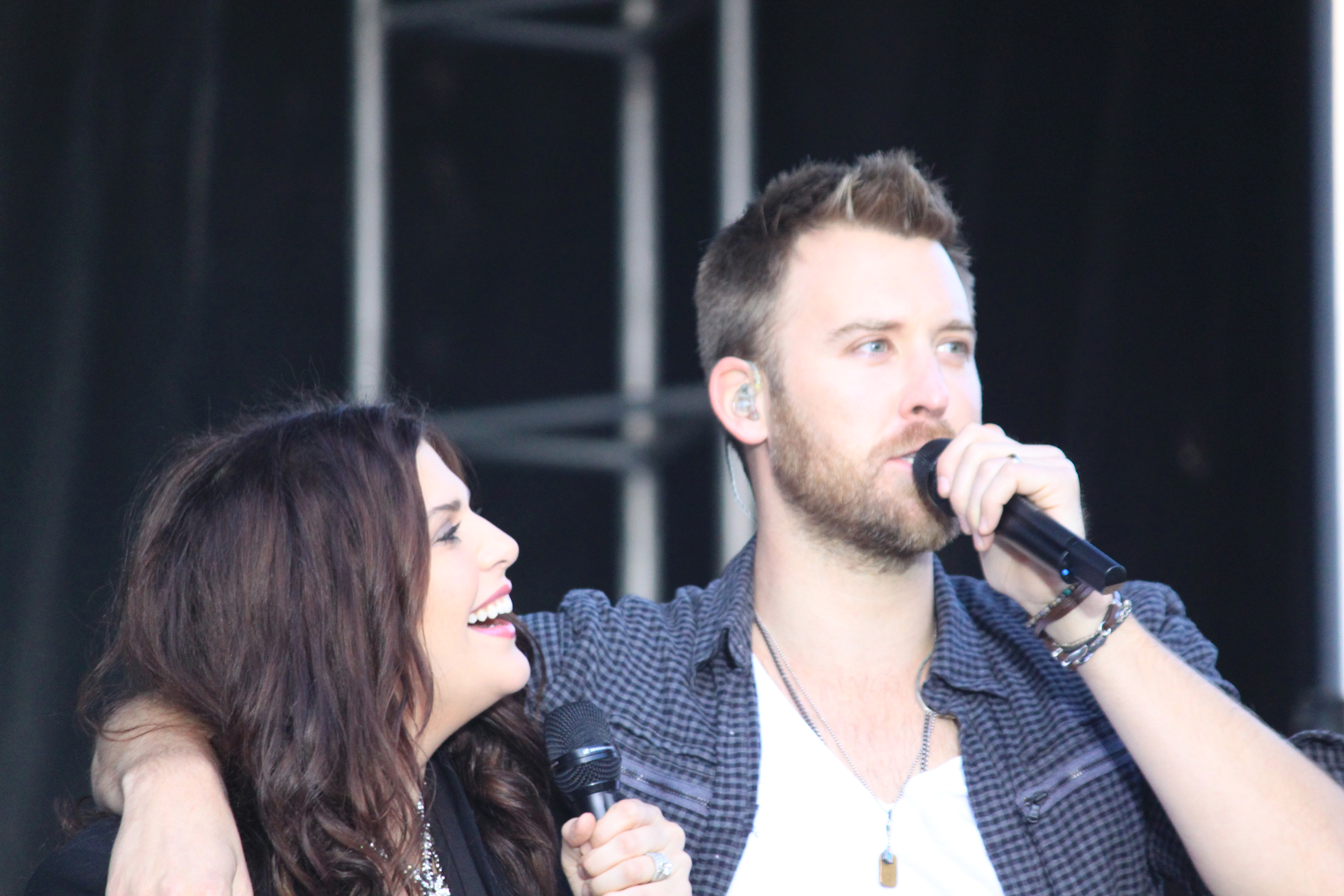 Lady Antebellum play in Charlotte